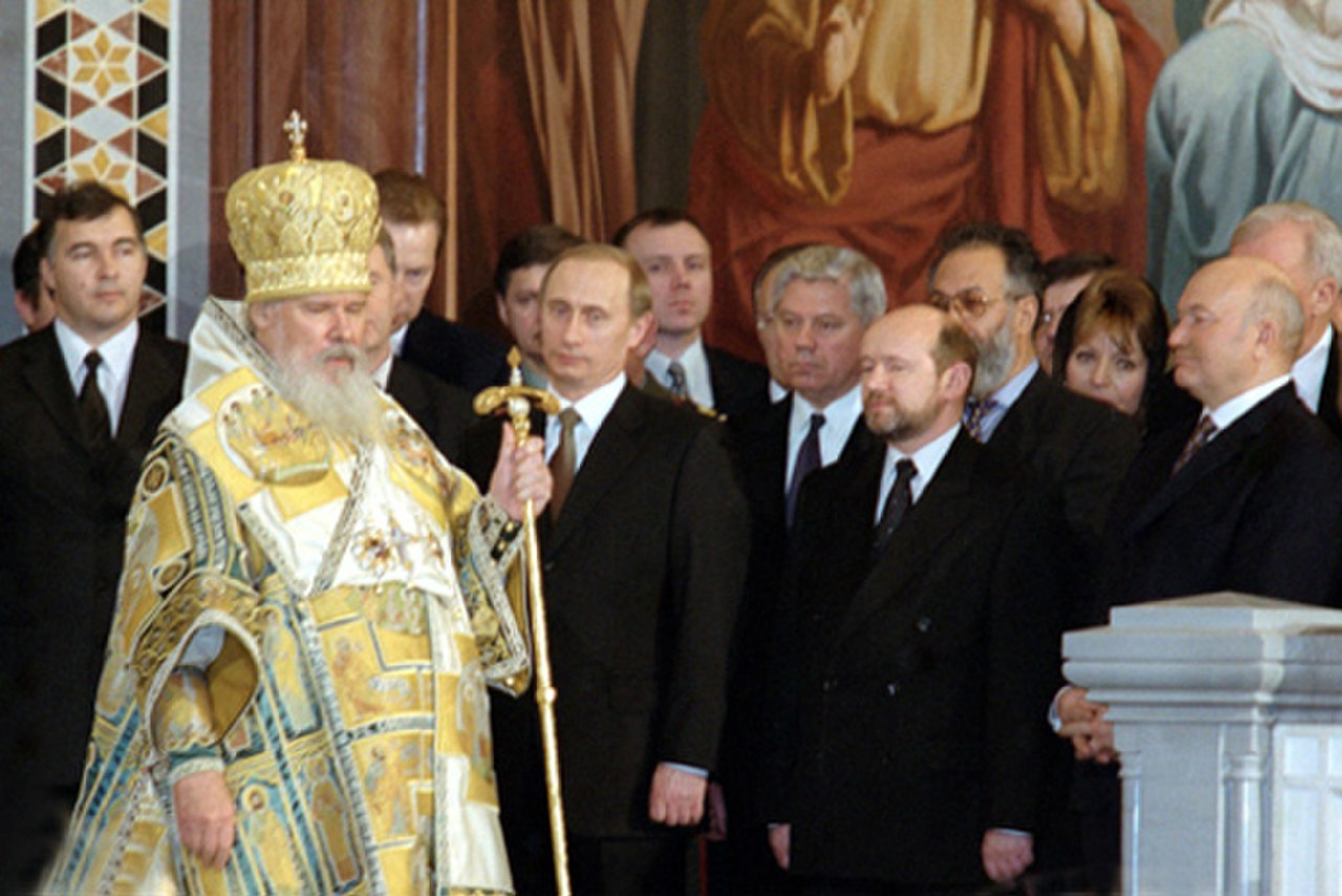 MOSCOW. At a Christmas service in the Cathedral of Christ the Saviour with Alexii II, the Patriarch of Moscow and All Russia.